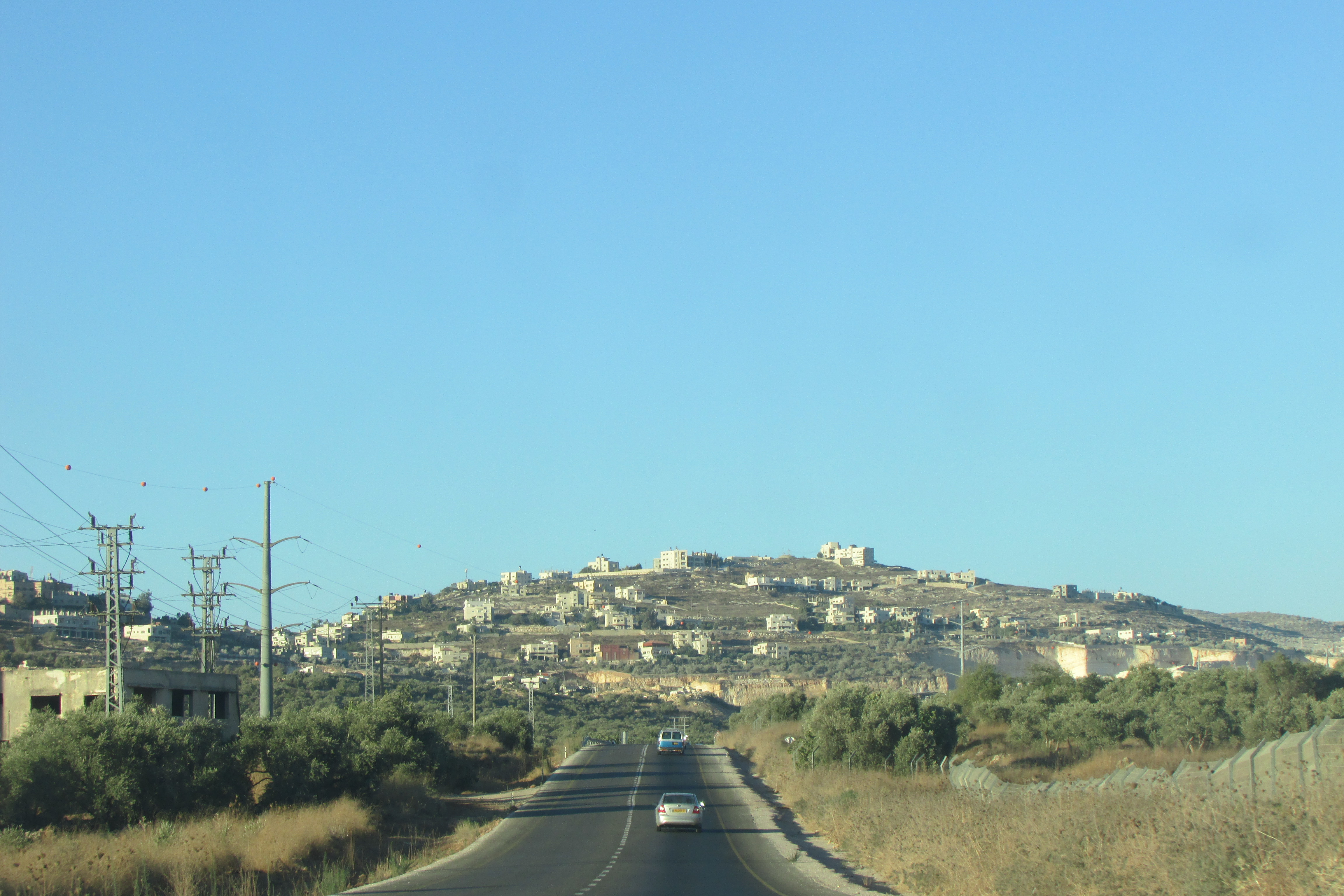 Jamma'in